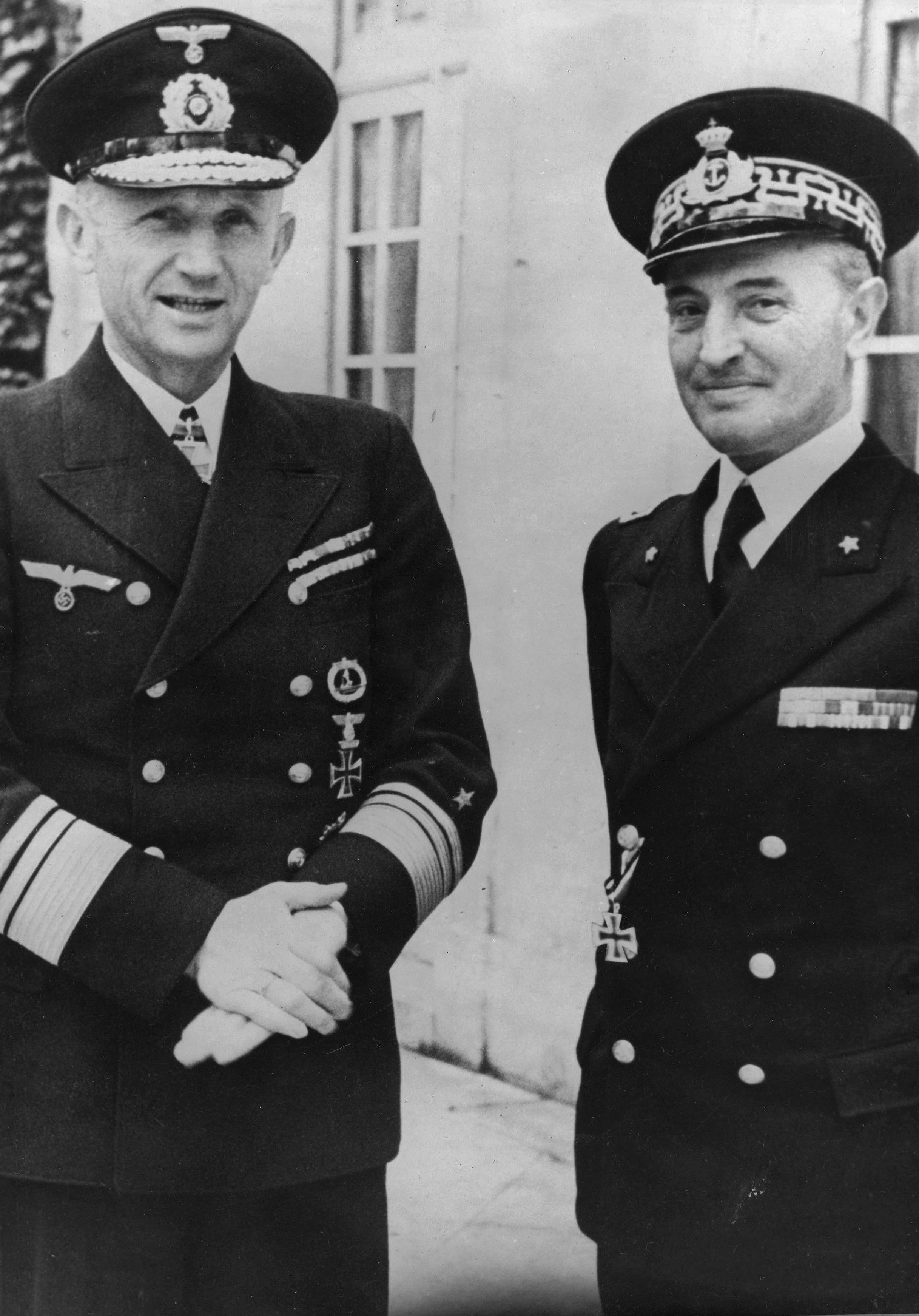 Italian Admiral Angelo Parona (1889-1977) with Karl Donitz.